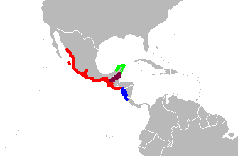 Agkistrodon bilineatus, Area of subspecies. Map made by user Accipiter (R. Altenkamp); based on Campbell & Lamar 2004: The Venomous Reptiles of the Western Hemisphere